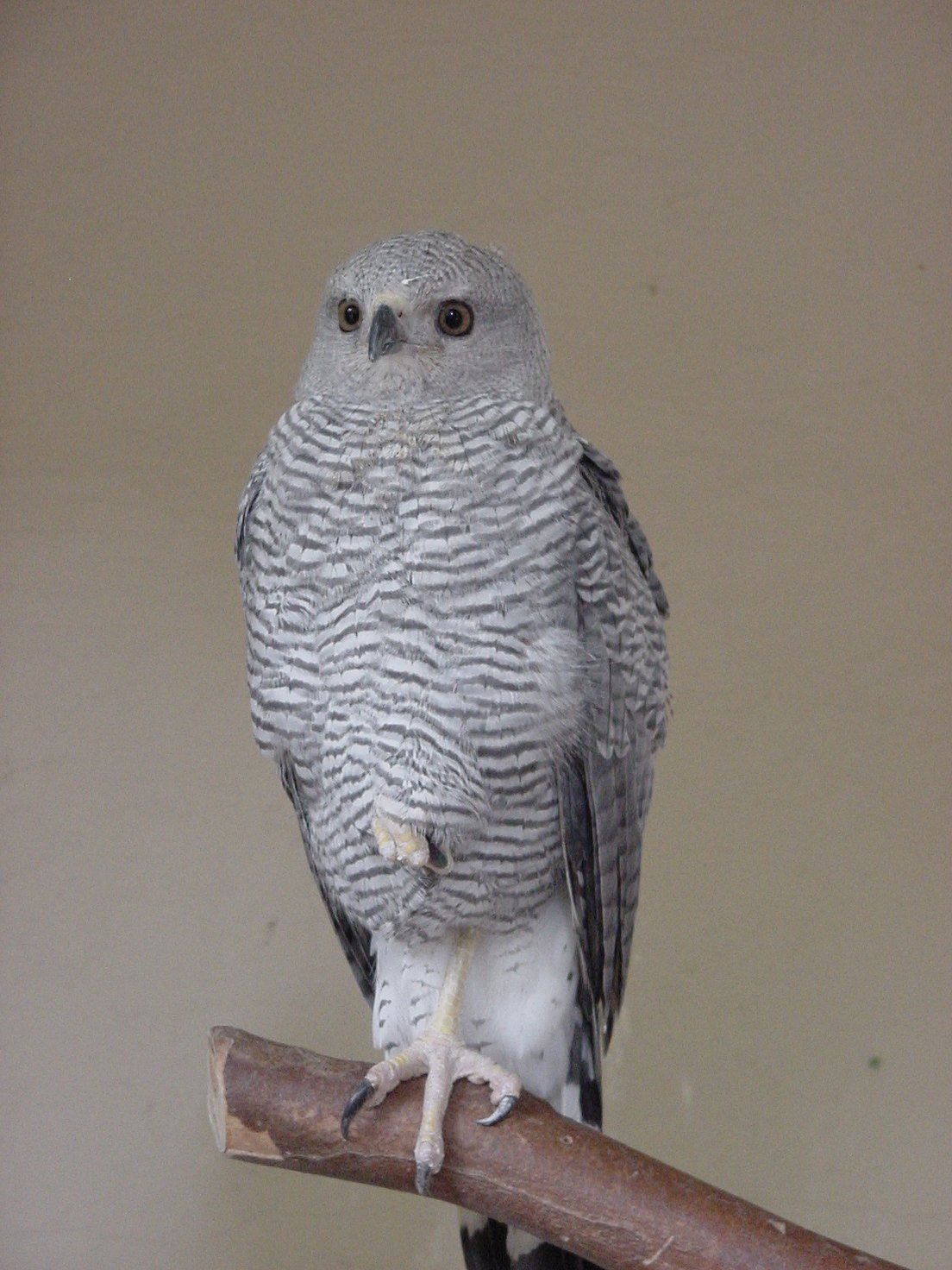 Either Grey Hawk Buteo plagiatus, or Grey-lined Hawk Buteo nitidus